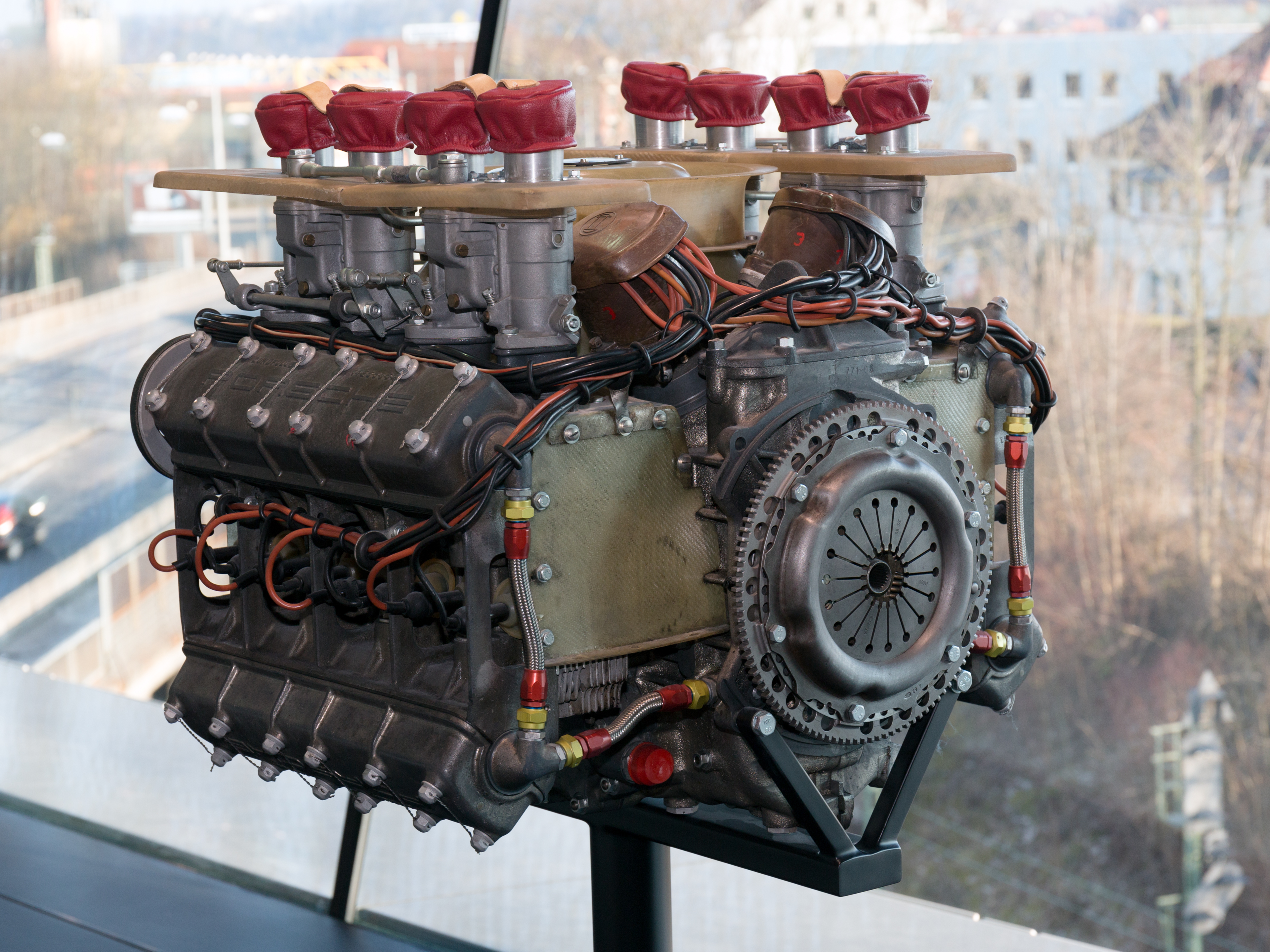 1964 Porsche Typ 771 engine